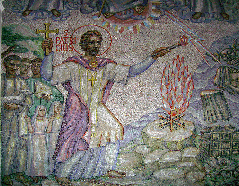 Saint Patrick Mosaic 1 by Boris Anrep. Christ the King Cathedral, Mullingar. Own Camera Work Peter Gavigan, May 2007